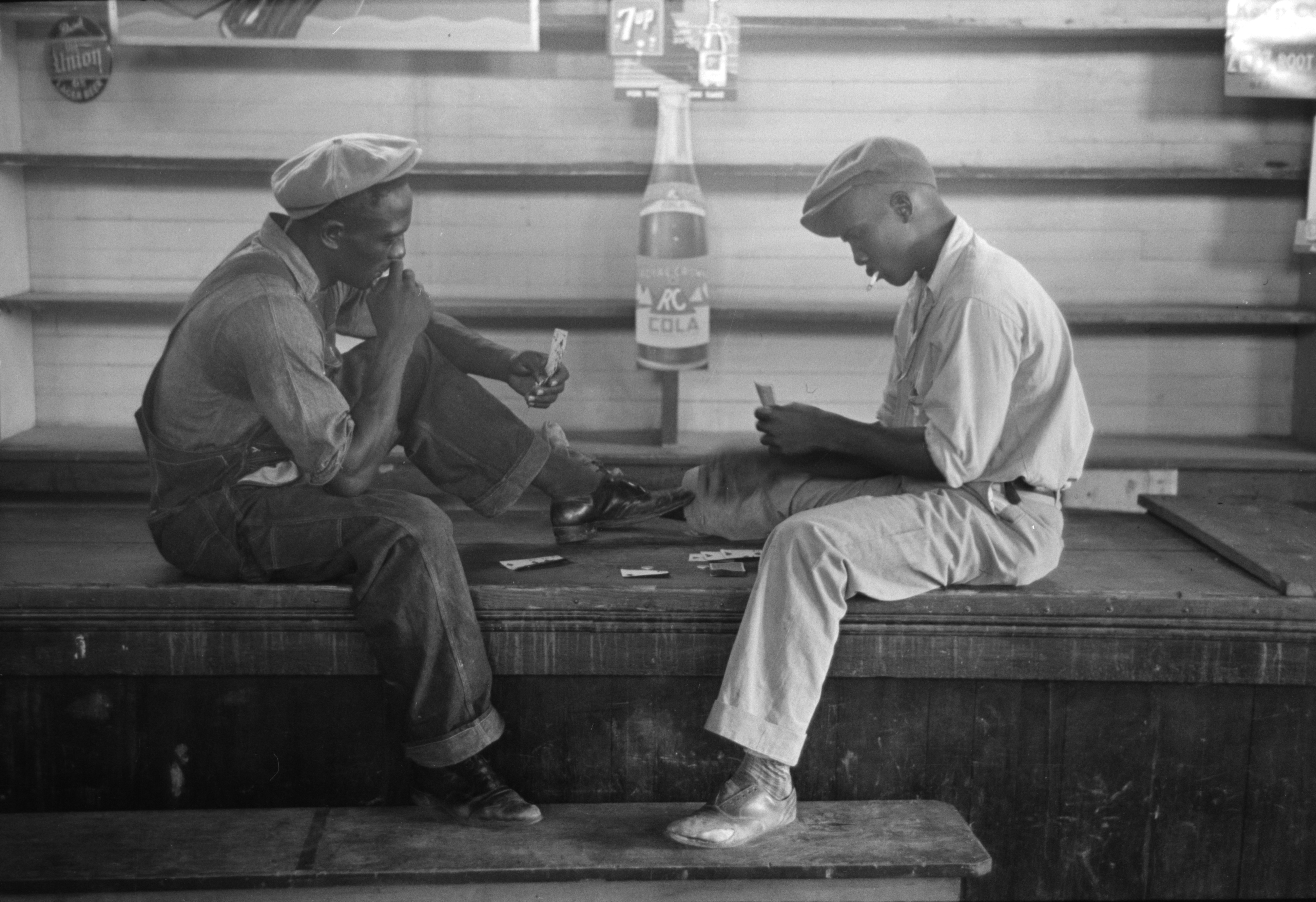 "Game of coon-can in store near Reserve, Louisiana". Photo of two African American men sitting playing Conquian (card game), 1938.